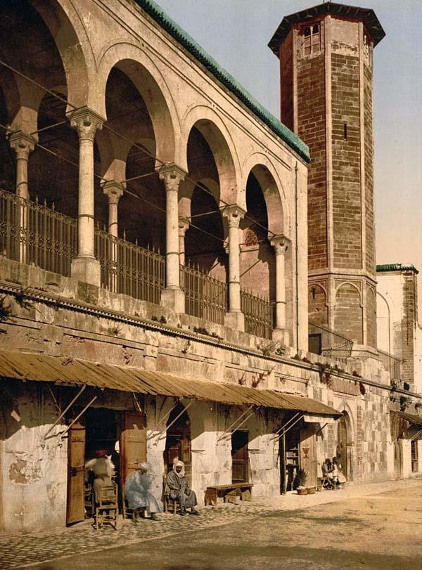 Photograph of the Halfaouine Mosque. This color photochrome print was taken in 1899 in Tunis, Tunisia.